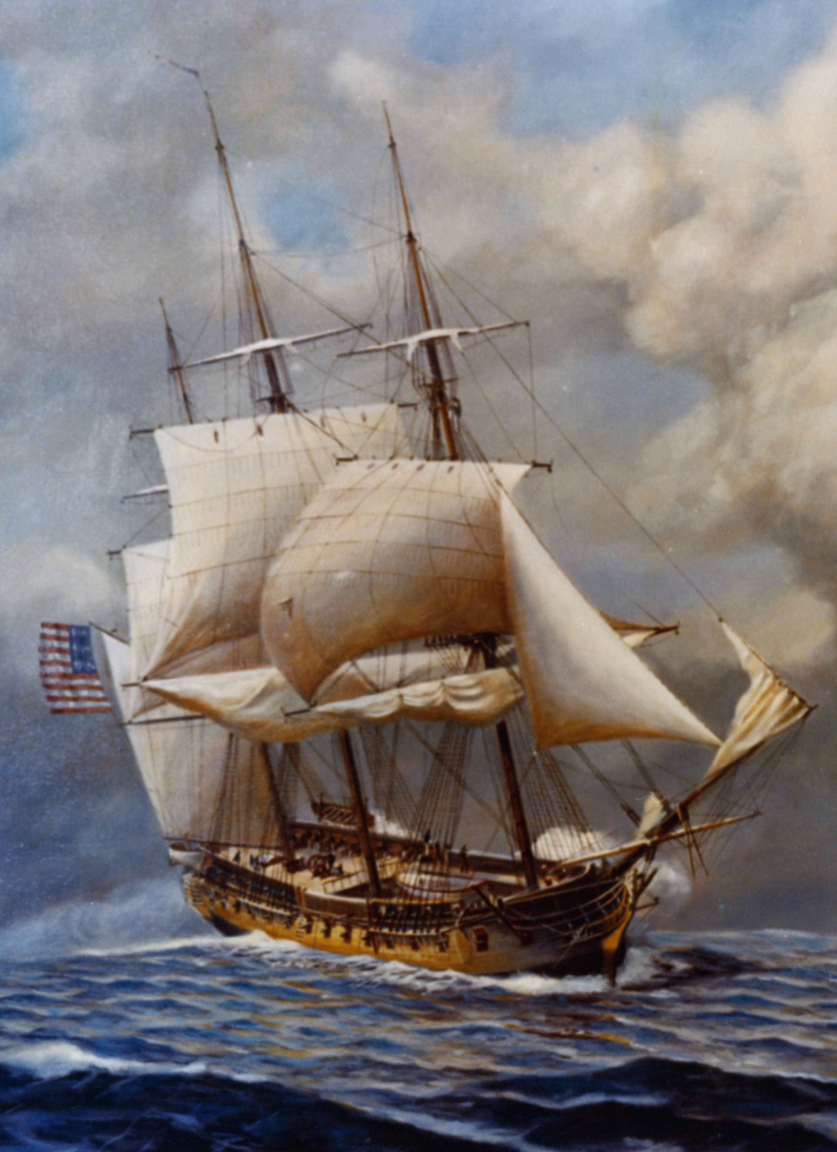 Cropped image of the Constellation from original painting.